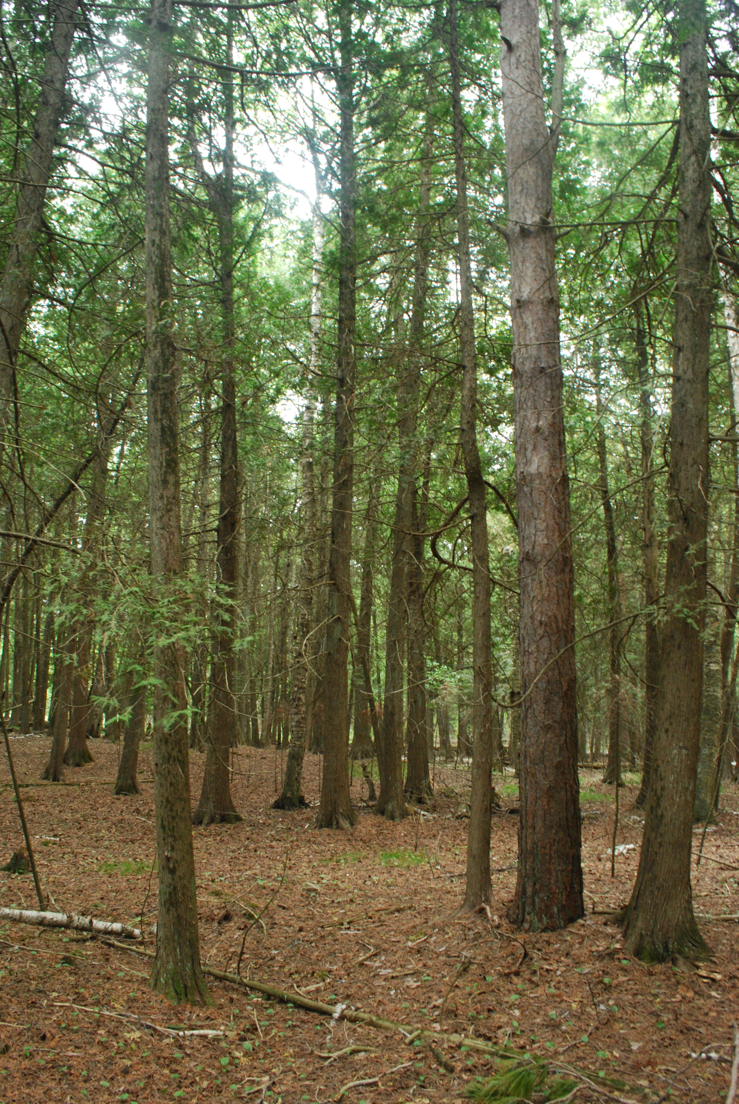 Thuja occidentalis forest, Wisconsin State Natural Area #13, Peninsula State Park, Door County, Wisconsin